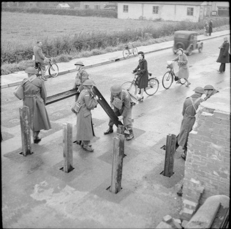 The Home Guard 1939-45 Home Guard soldiers in York prepare a roadblock by inserting metal girders into pre-dug holes in the road, 2 November 1941.